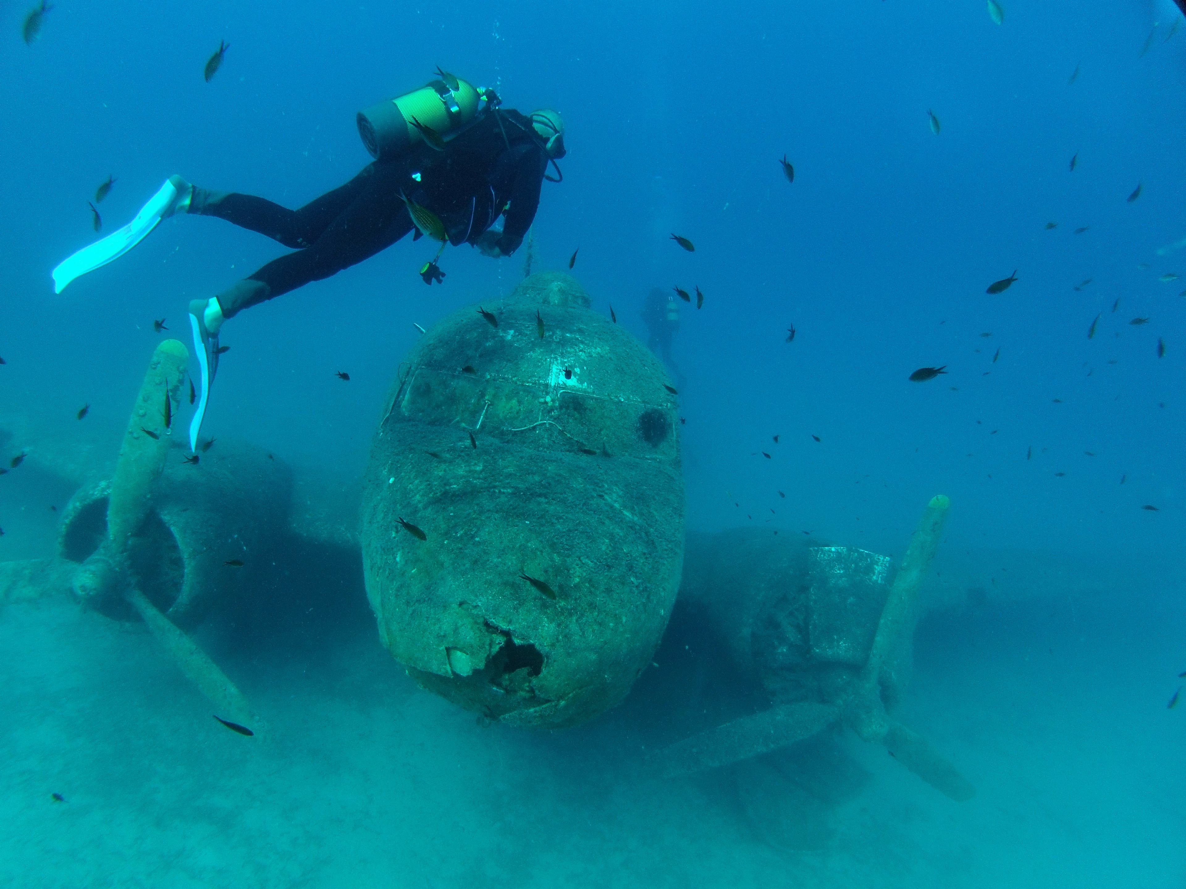 Nose of the C-47 Dakota in the bight of Kaş for scuba diving